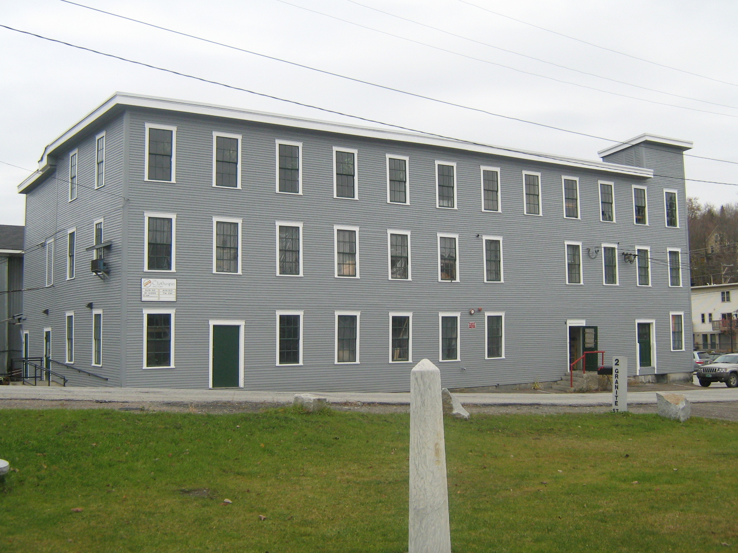 National Clothespin Company factory in Montpelier, Vermont. Last manufacurer of wooden clothespins in the US; building now houses martial arts studios and other businesses.